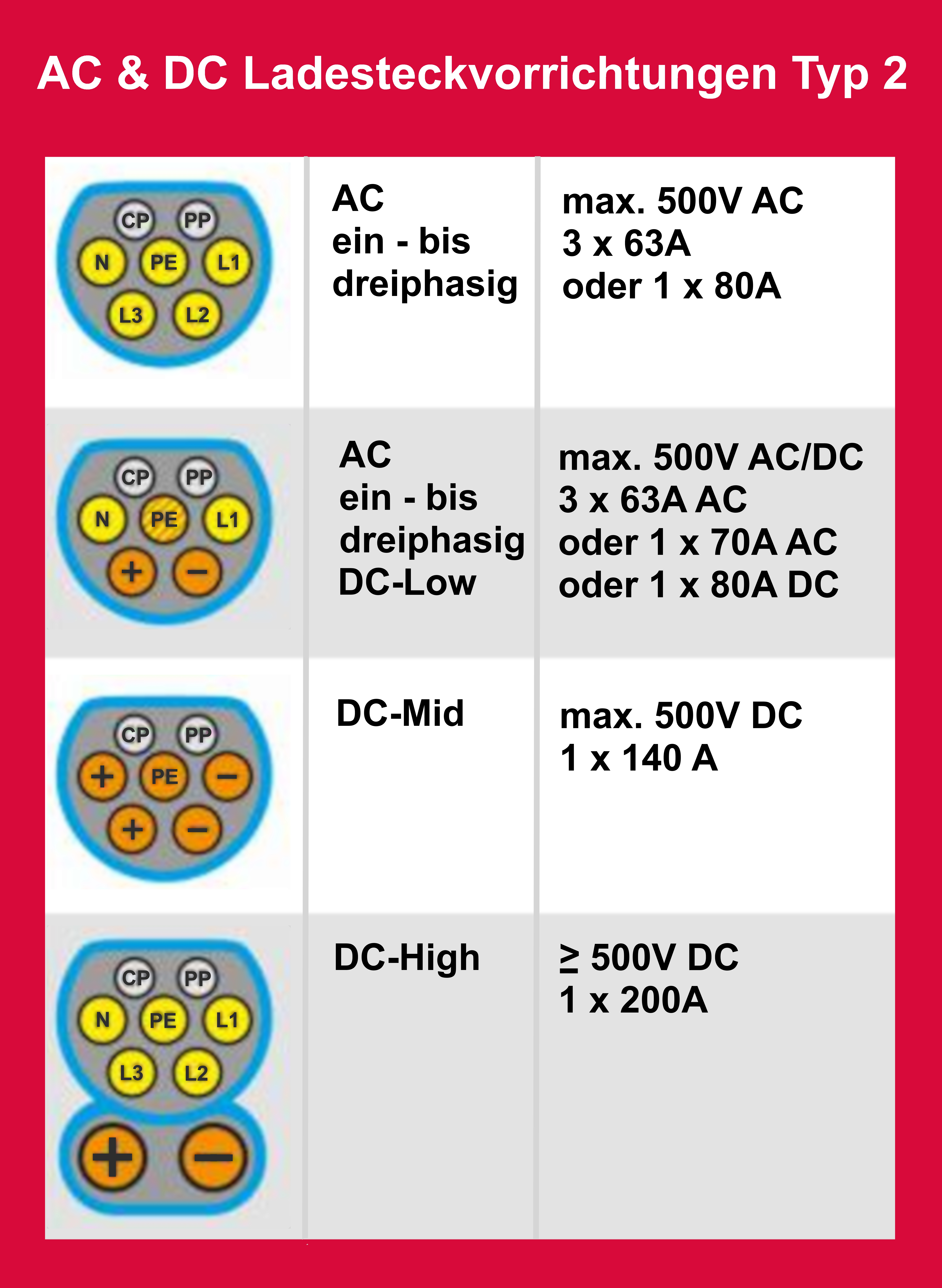 VDE-AR-E 2623-2-2 plug